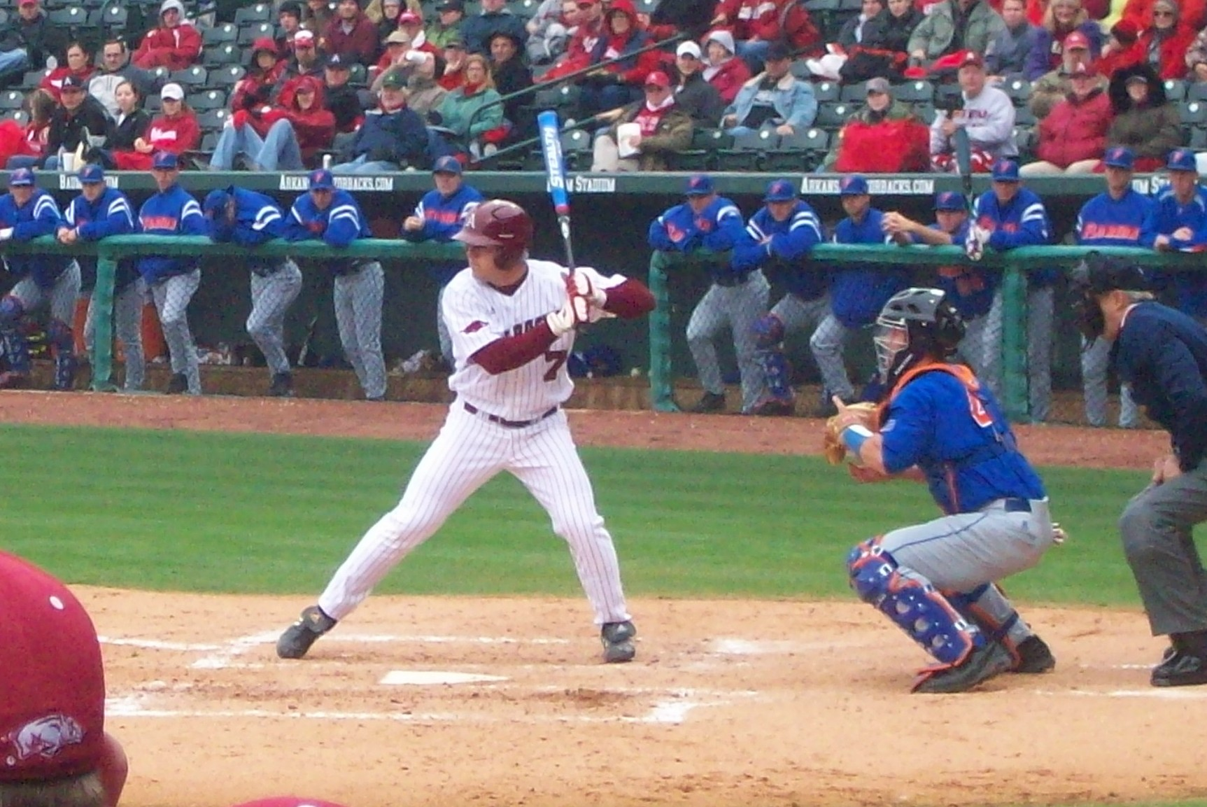 Zach Cox of the University of Arkansas Razorbacks baseball team batting in 2009.